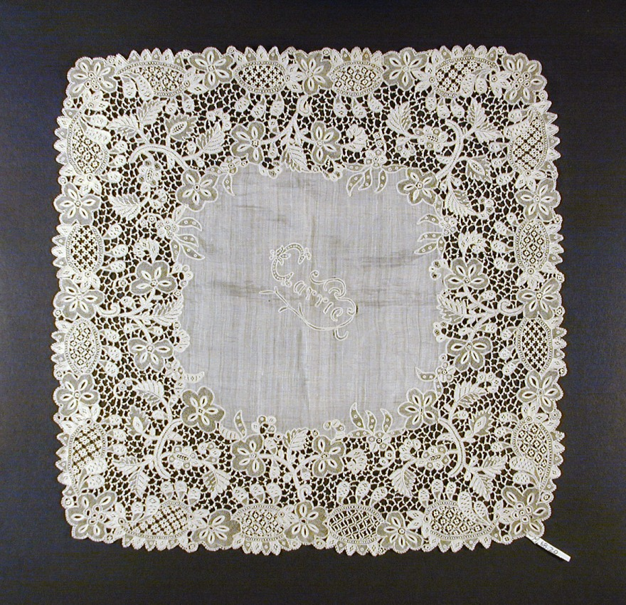 Ireland, circa 1885 Costumes; Accessories Linen plain weave and linen Youghal lace Gift of Mrs. Clyde Russell Burr (M.68.20) Costume and Textiles